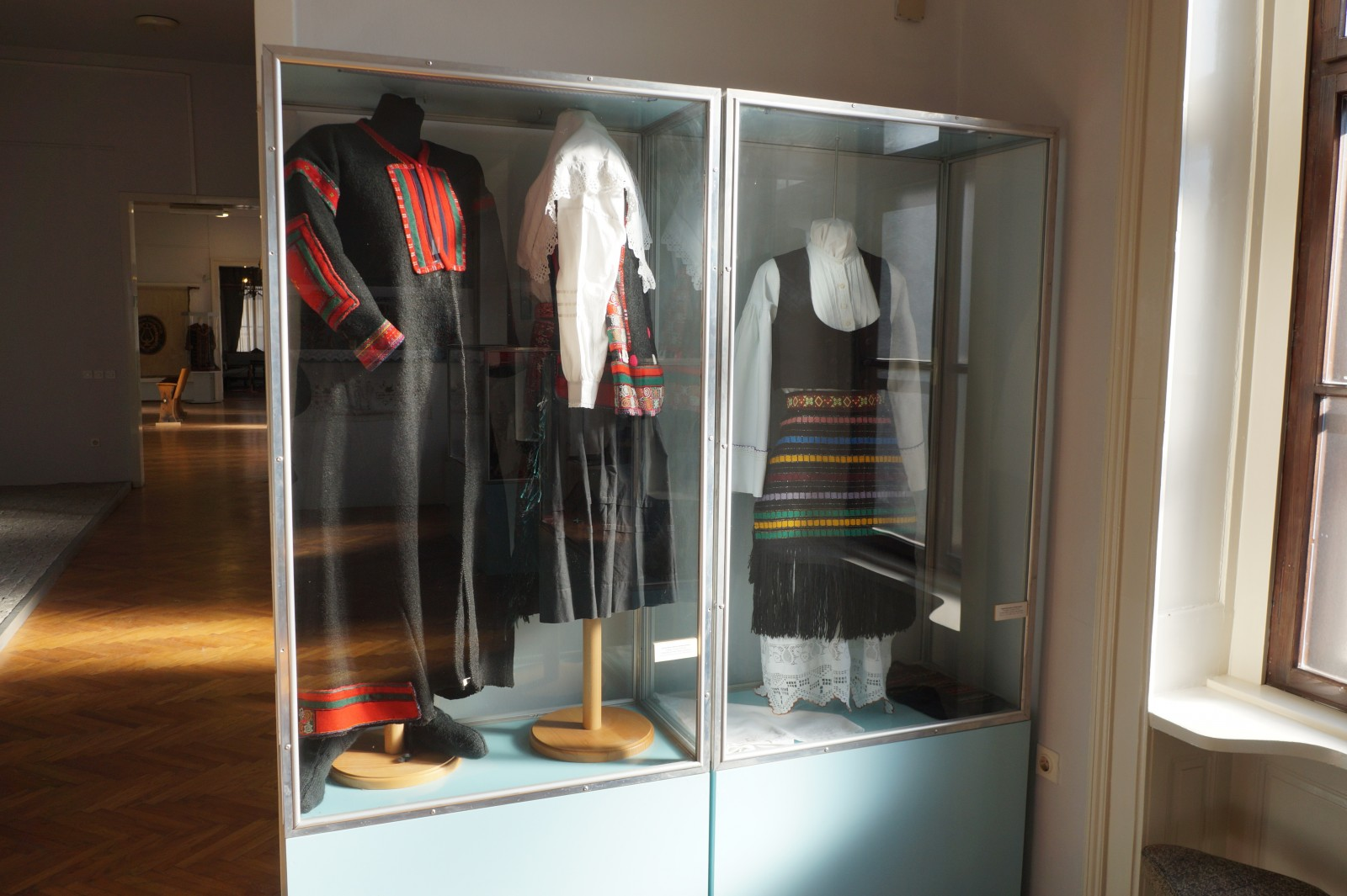 National ethnic costumes from Vojvodina